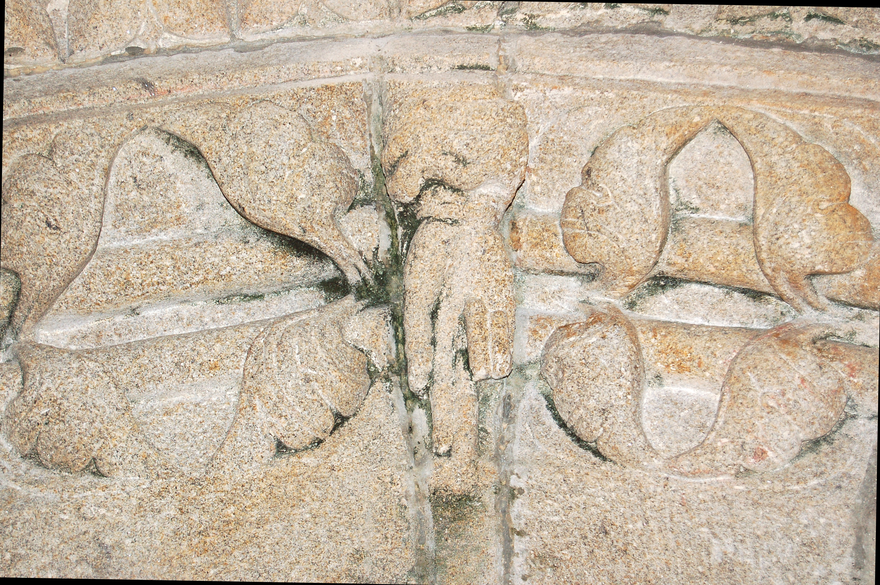 Man de Deus nun sartego de San Domingos de Bonaval en Santiago de Compostela